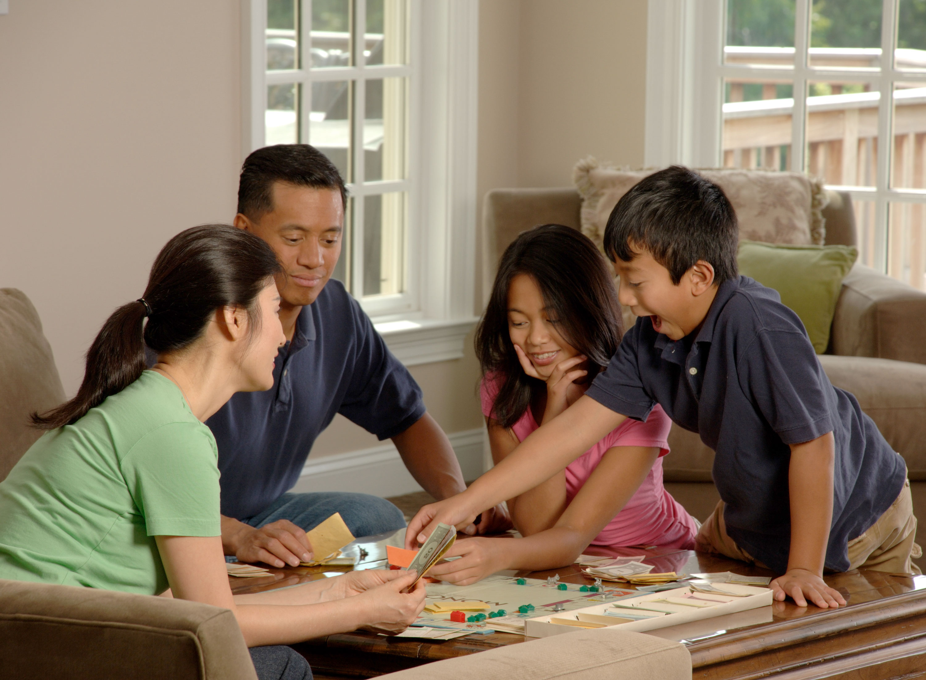 Title Family Playing A Board Game Description An Asian family (adult male and female and two adolescents, male and female) sitting around a coffee table playing a board game. Topics/Categories People -- Adult People -- Child People -- Family/Friends People -- Recreation Type Color, Photo Source National Cancer Institute